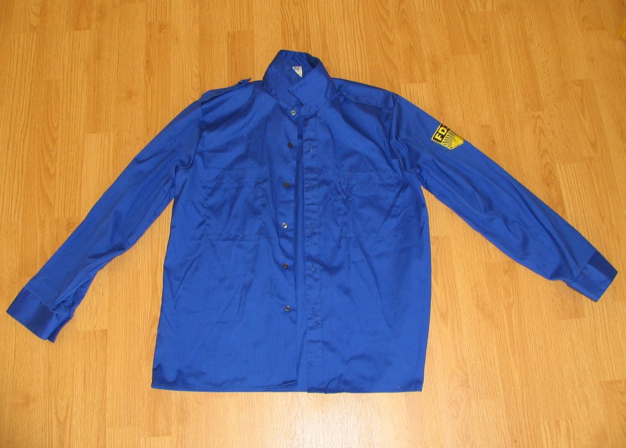 A blue shirt of the GDR youth organization Freie Deutsche Jugend